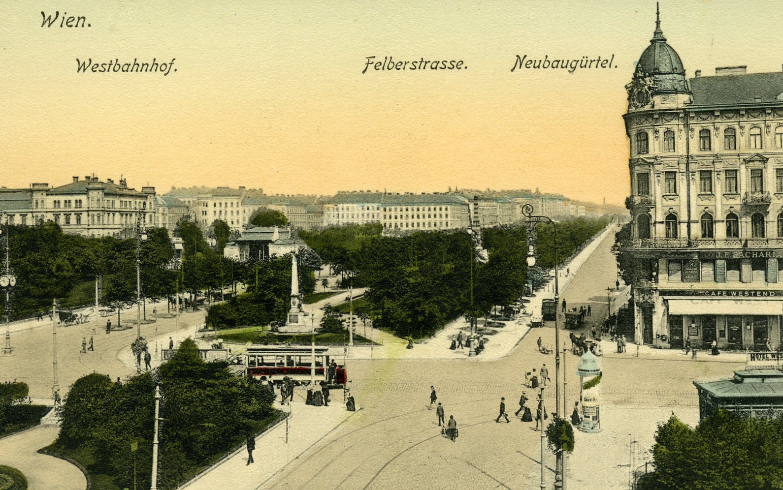 Area of Westbahnhof Vienna, around 1900